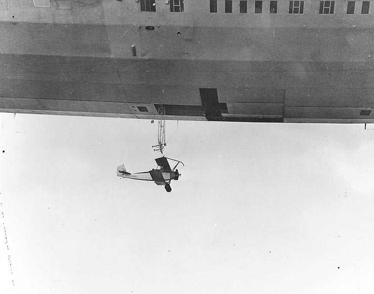 USS Akron (ZRS-4) Launches a Consolidated N2Y-1 training plane (Bureau # A8604) during flight tests near Naval Air Station Lakehurst, New Jersey, 4 May 1932.